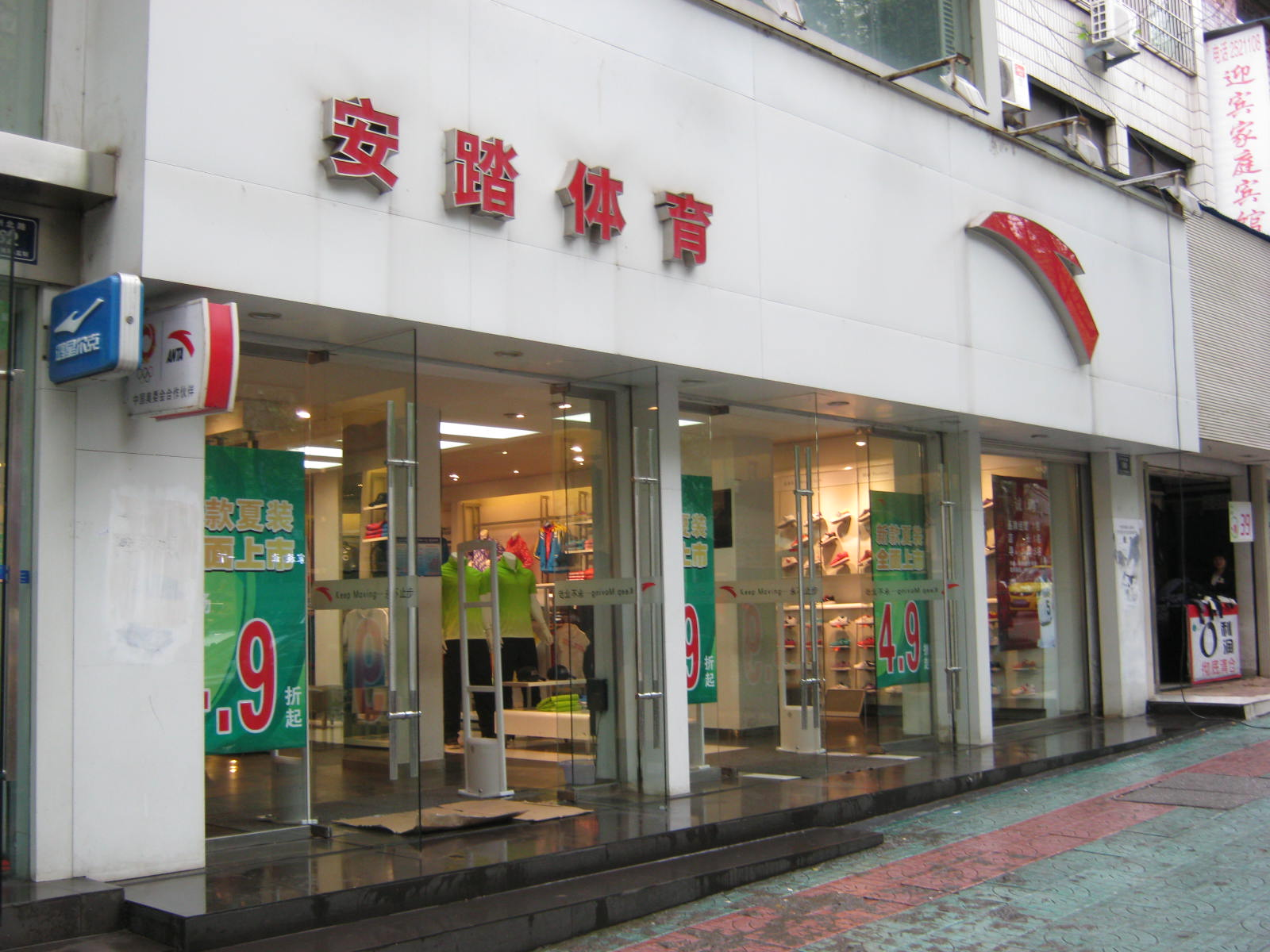 Store in Huaihua, Hunan Province